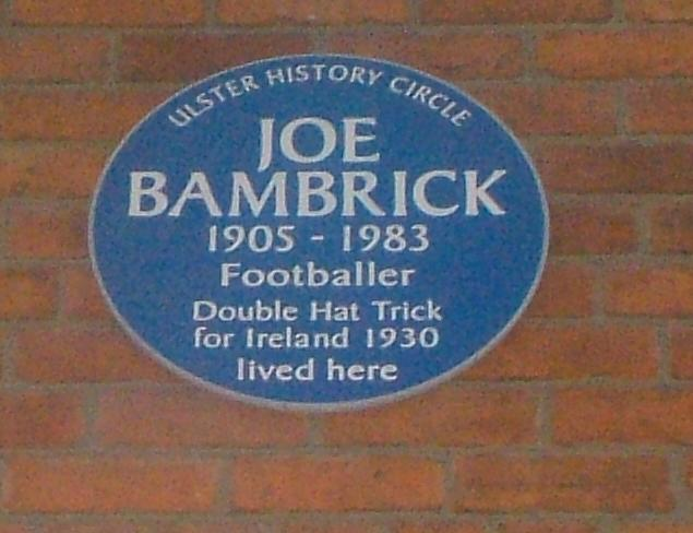 taken in UK under Freedom of Panorama